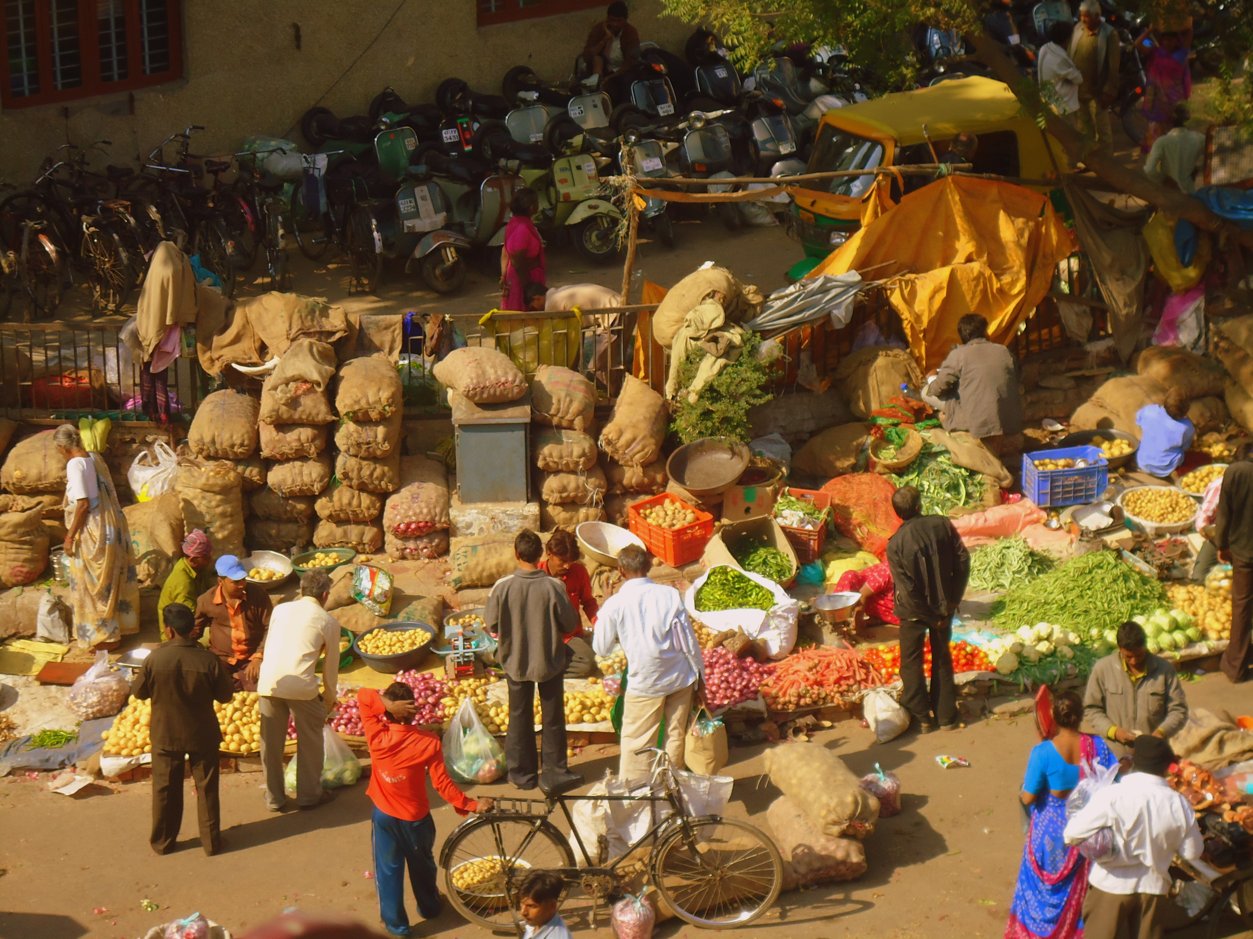 The APMC is the market where the farmers are come with their Grown Vegetables.. & sell here. Near the Jamalpur, Ahmedabad